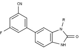 6-aryl-1,3 dihydrobenzimidazol-2ones with lipophilic substituent at the 1-position of the benzimidazolone